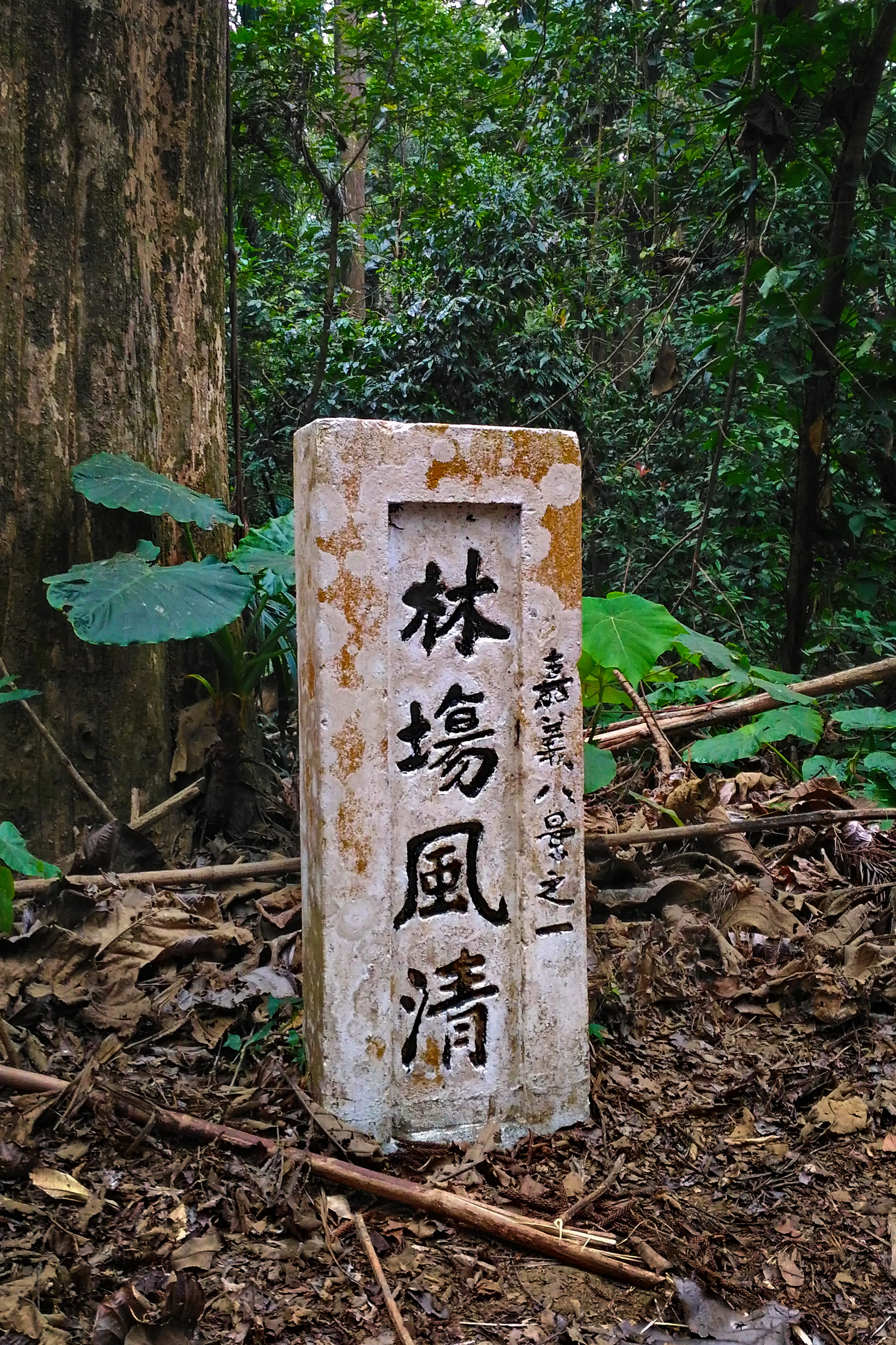 A stele in the Chiayi Botanical Garden, Chiayi City, Taiwan.